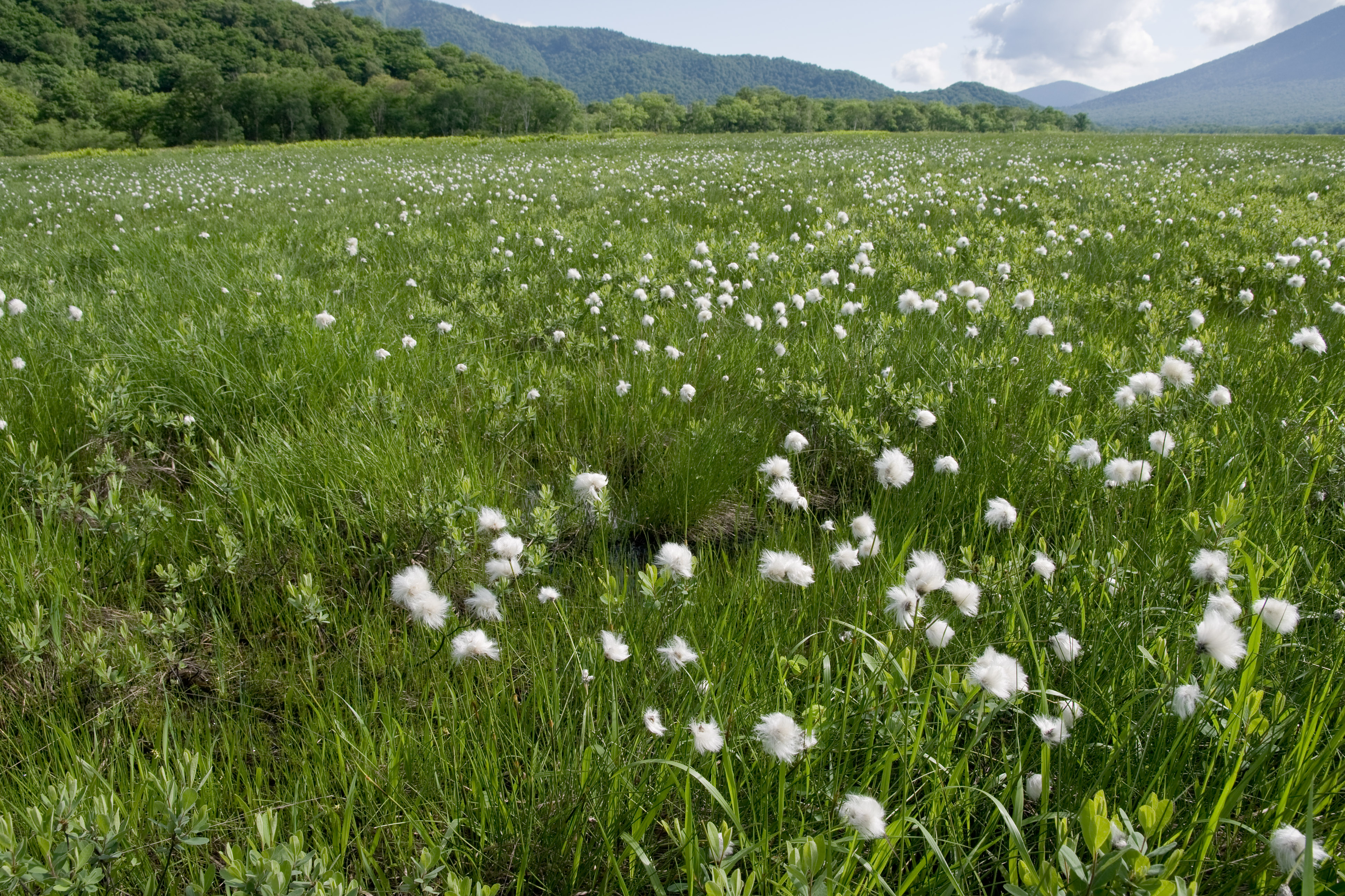 Ozegahara, Katashina Vill., Gunma Pref., Japan